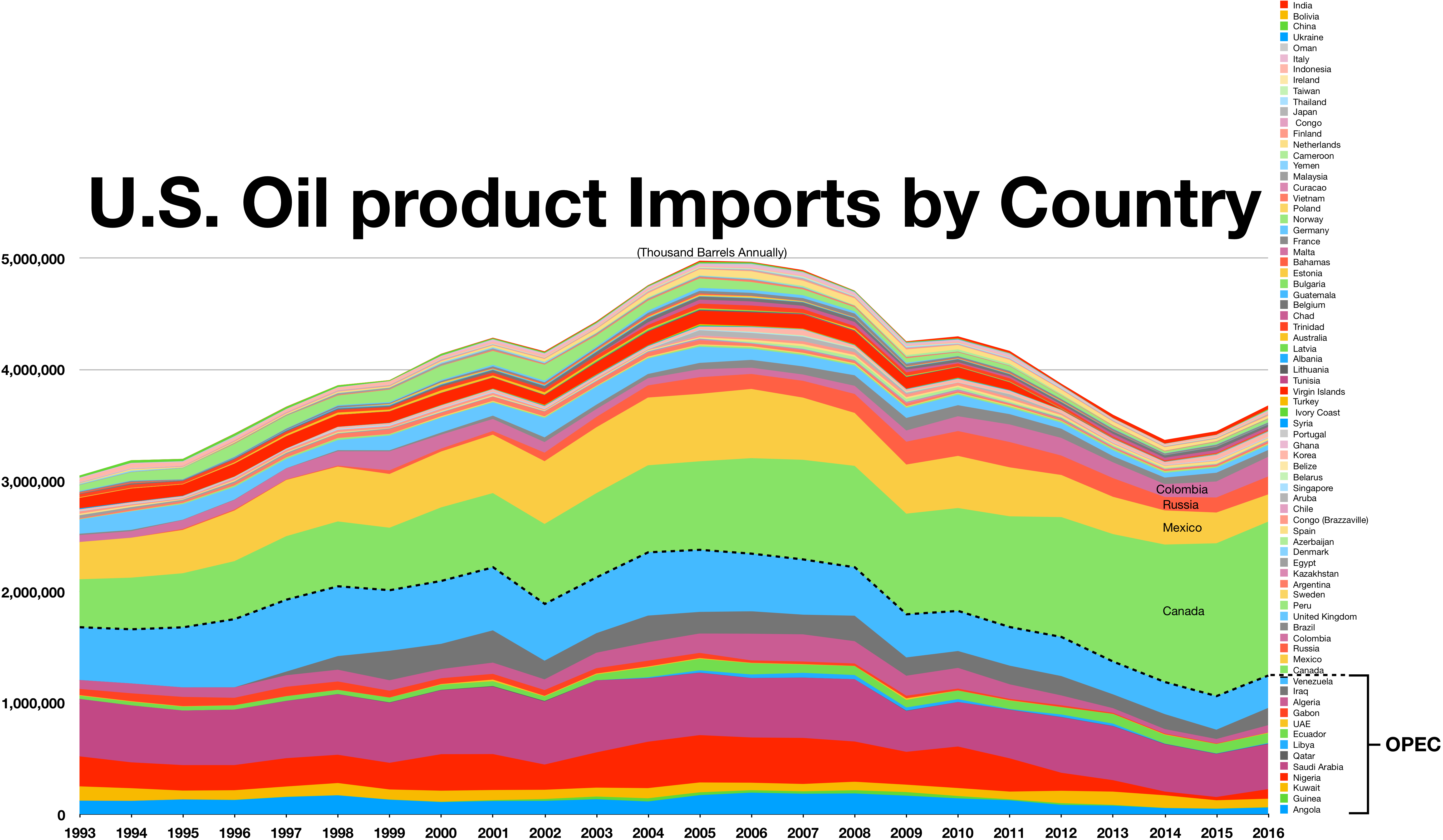 United States oil product imports by country